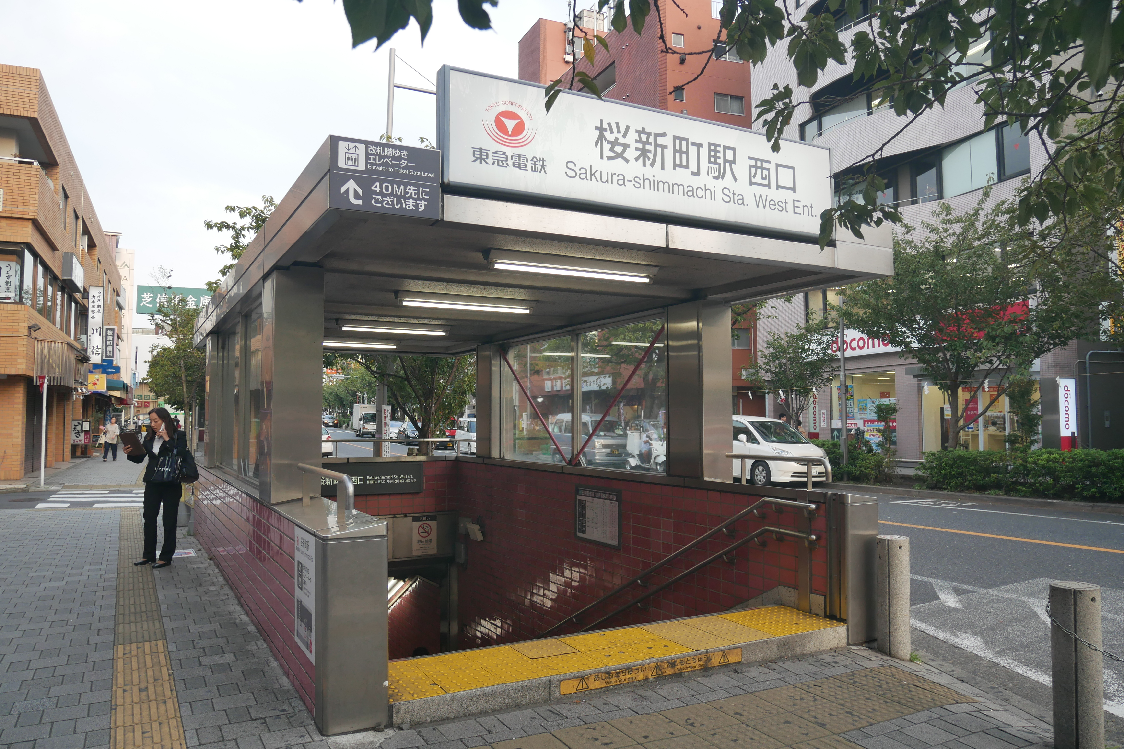 桜新町駅の西口（Sakura-shimmachi Station west exit）